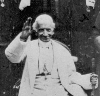 Pope Leo XIII in 1898